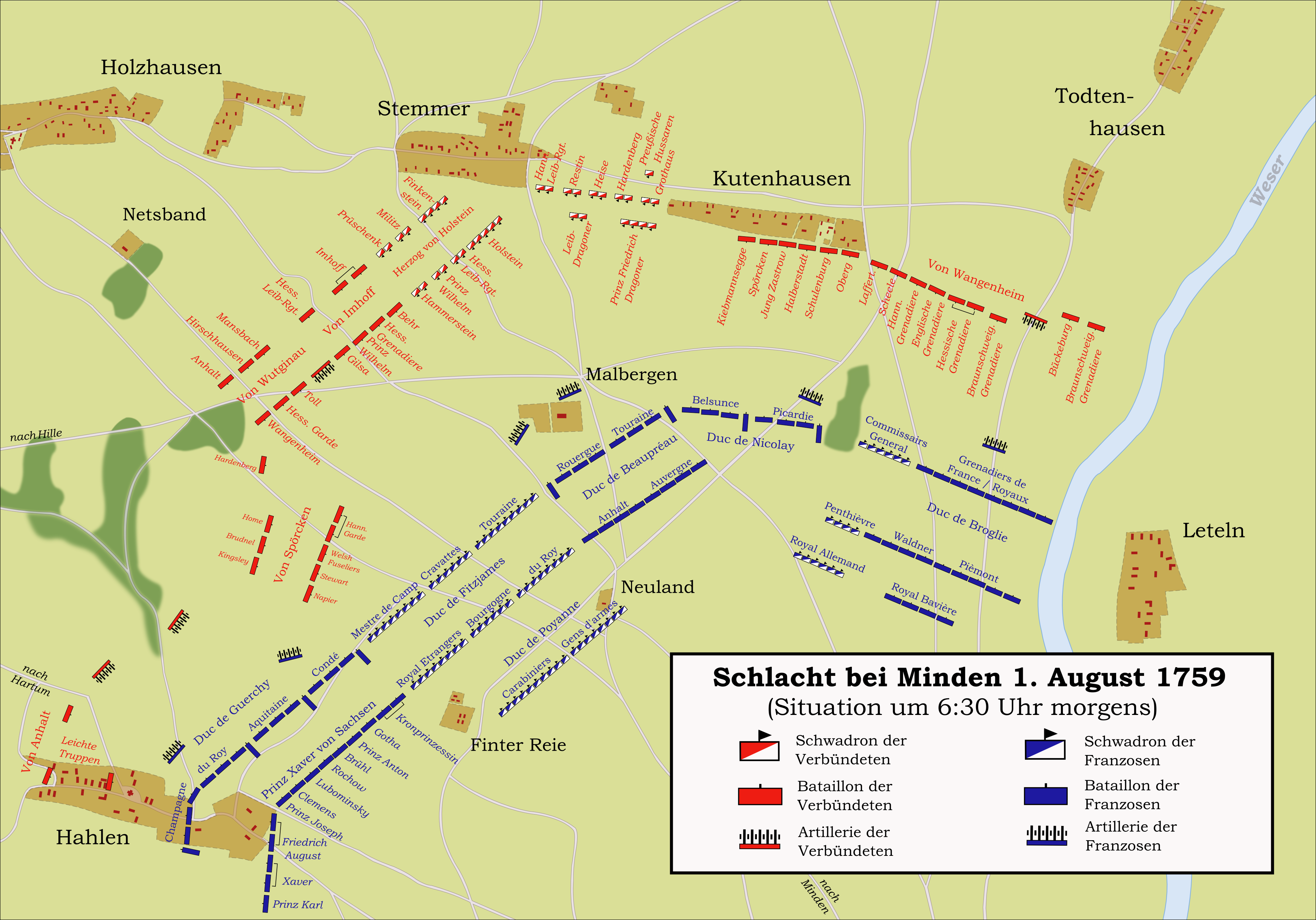 (German) Map of the Battle of Minden 1759. The work is based on a seperate map in Großer Generalstab / Kriegsgeschichtliche Abteilung (Hrsg.): Der Siebenjährige Krieg 1756–1763, Bd.11: Minden und Maxen, Verlag Ernst Siegfried Mittler & Sohn, Berlin 1912 (= Die Kriege Friedrichs des Großen, Theil 3).